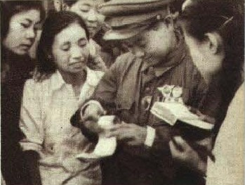 1950年10月，中华人民共和国全国战斗英雄会议，1950年8月的《人民画报》。